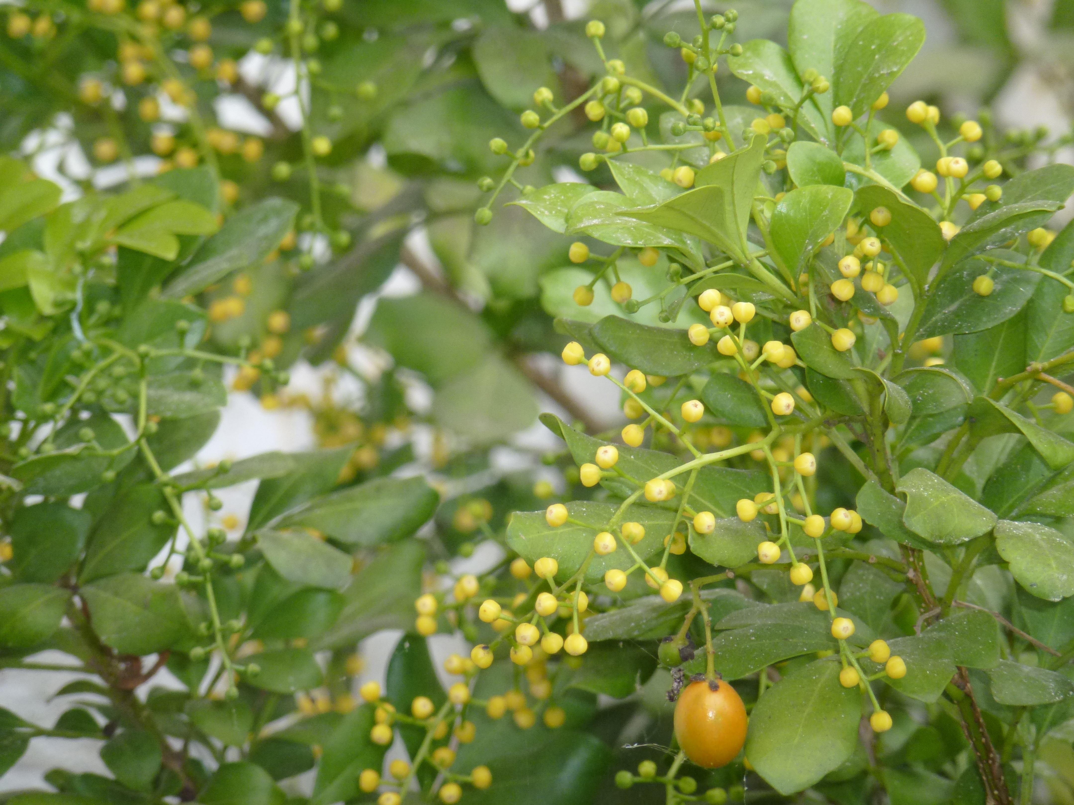 Aglaia duperreana in VietnamTiếng Việt: Ngâu (Aglaia duperreana) chụp tại Thanh Hóa, Việt Nam